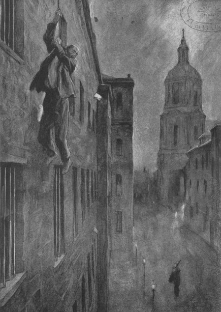 artist's reconstruction of Gottfried Kinkel's 1850 escape from Spandau (Berlin suburb) Germany prison. Kinkel is hanging by a rope by the face of a wall.